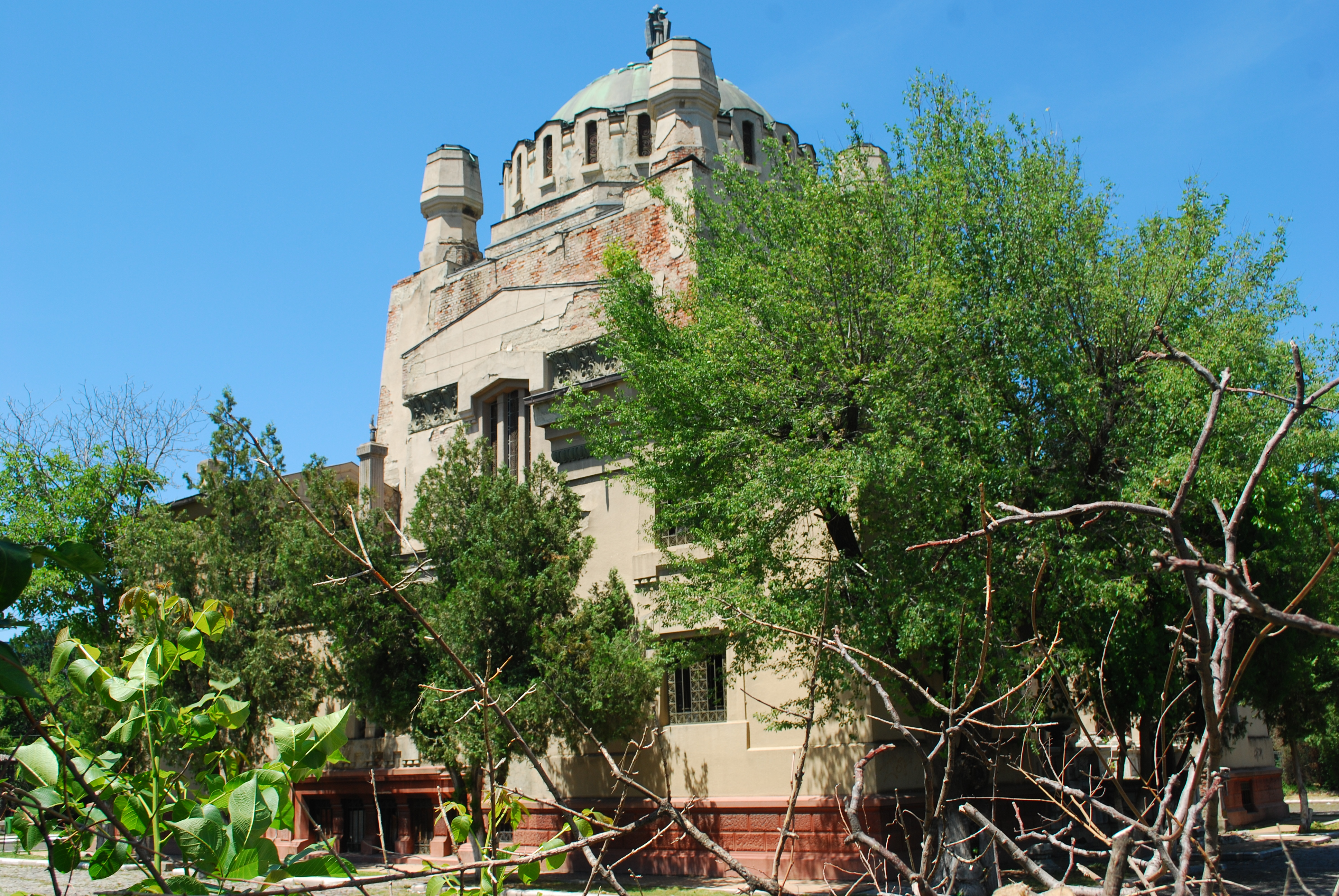 Crematorium in Tineretului Park, Bucharest, RomaniaRomână: Crematoriul din Parcul Tineretului, București, România